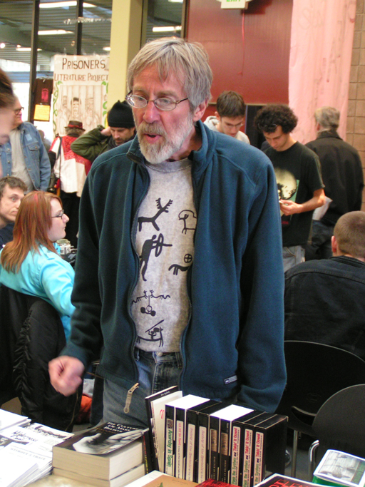 John Zerzan at the annual San Francisco Anarchist Bookfair. March 13, 2006.